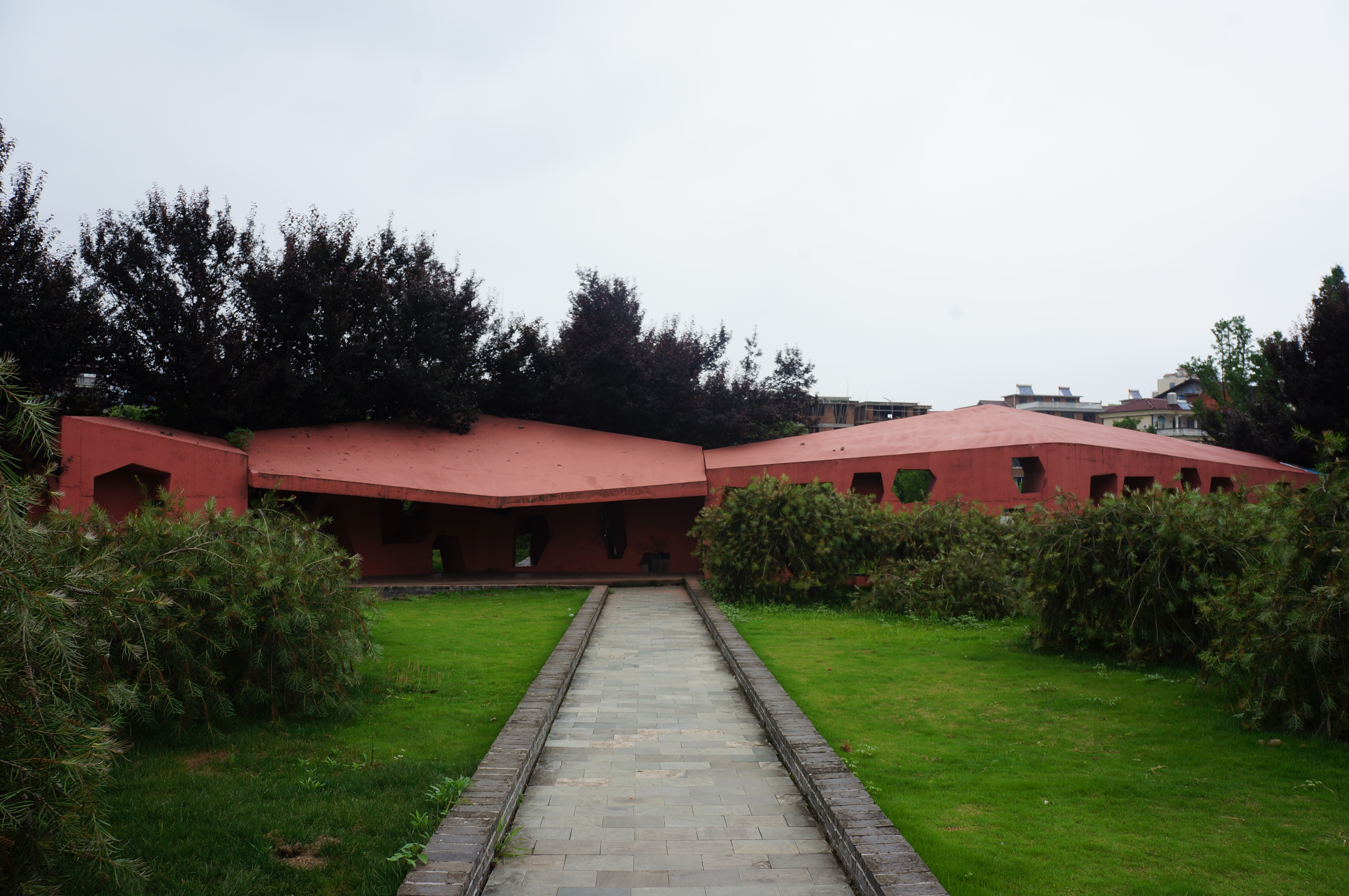 201805 Front view of The Playground